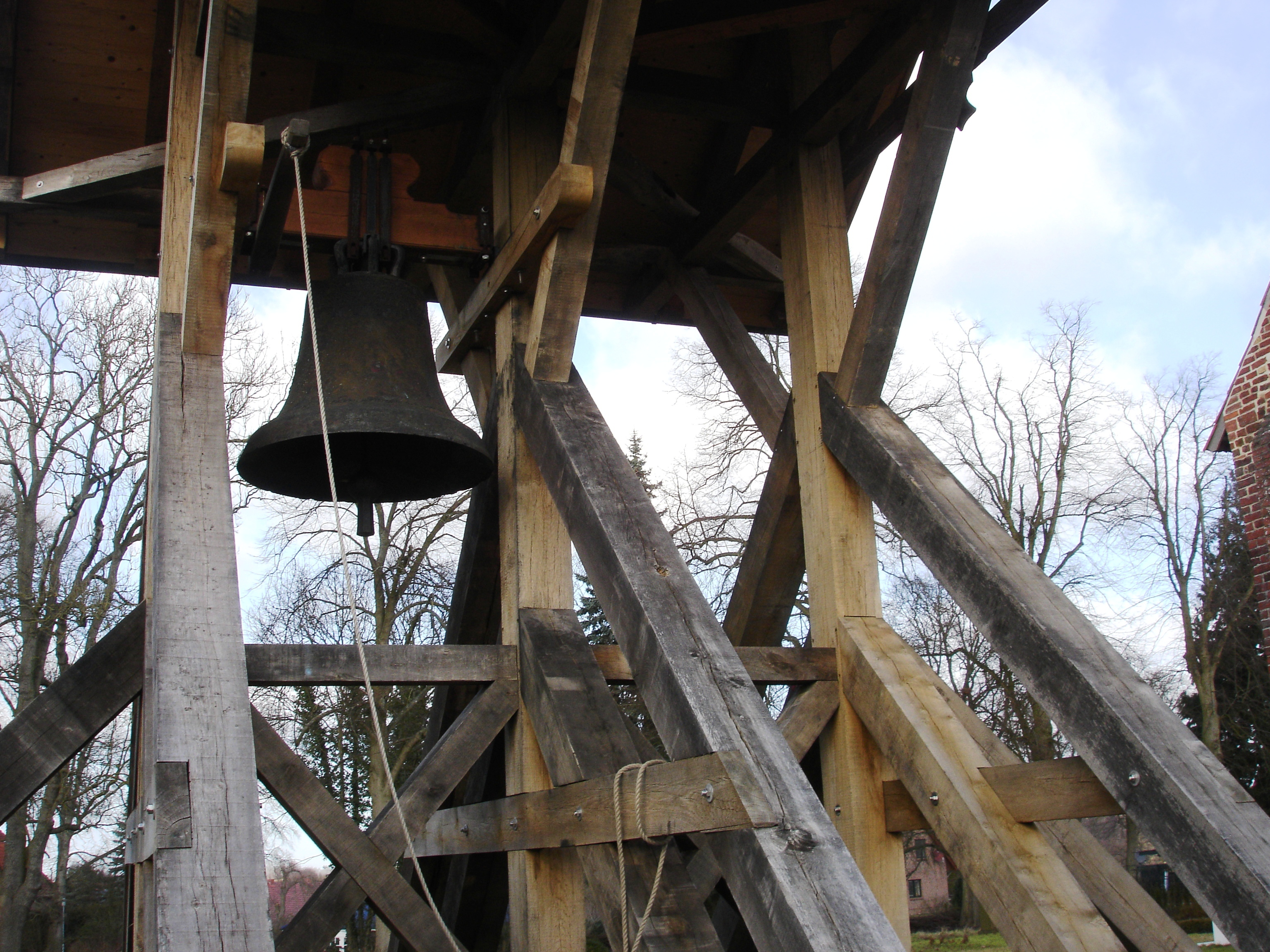 Church in Groß Trebbow, district Nordwestmecklenburg, Mecklenburg-Vorpommern, Germany